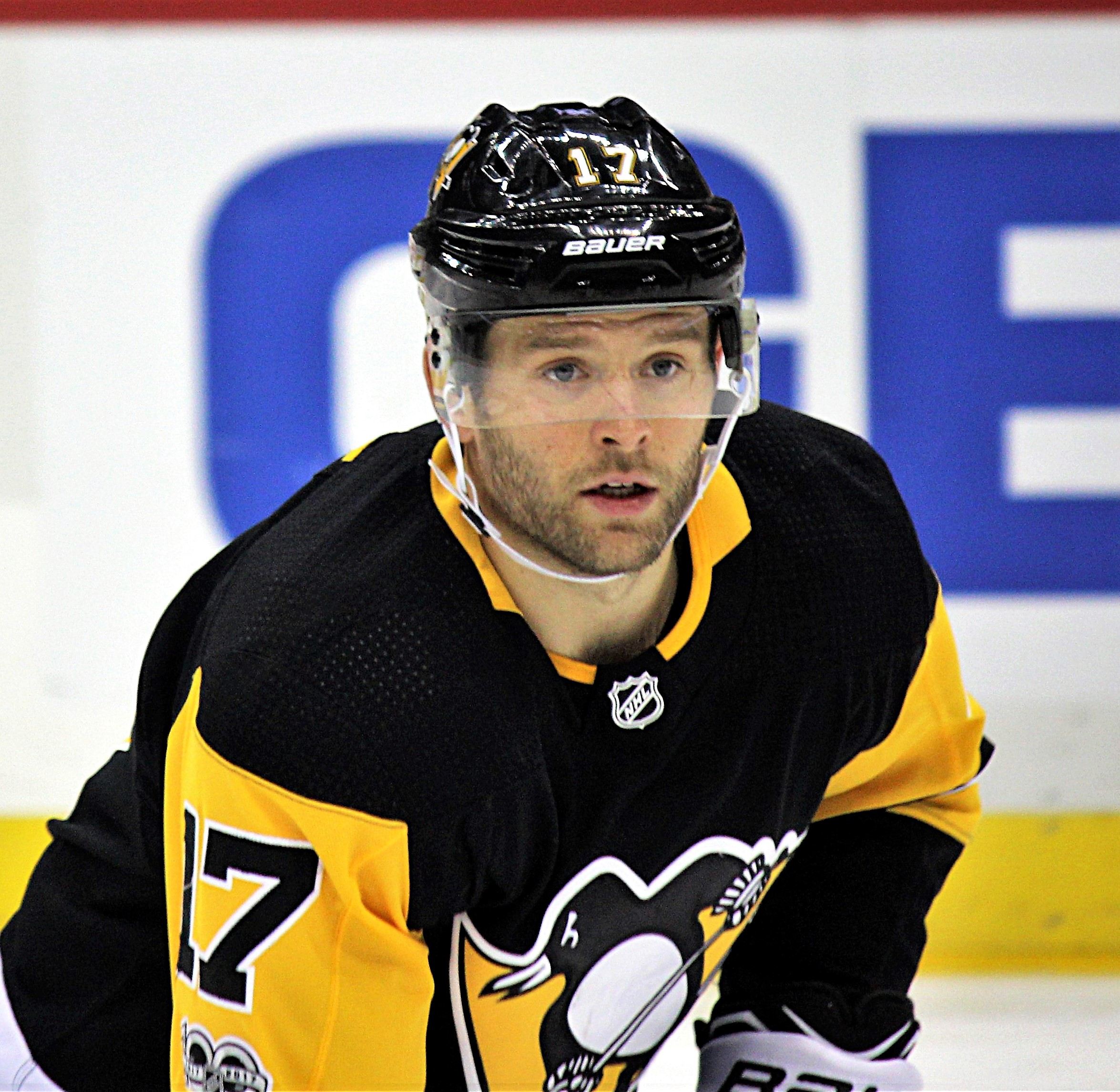 Pittsburgh Penguins forward Bryan Rust during a game against the Toronto Maple Leafs, December 9, 2017, at PPG Paints Arena in Pittsburgh, PA.